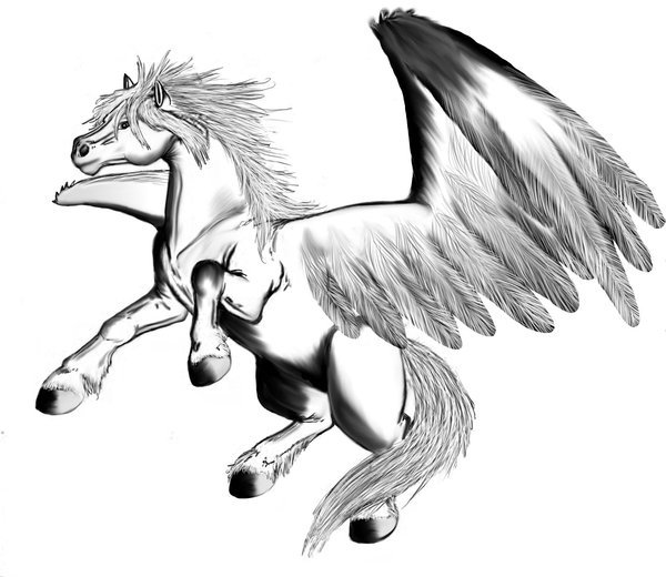 Roaring Pegasus, numeric drawing made with the GIMP.